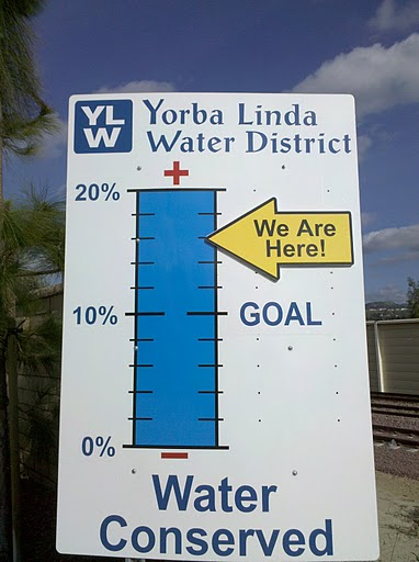 These signs were placed at various location in the city in the summer of 2009 to promote conservation, as a result of expected shortages.